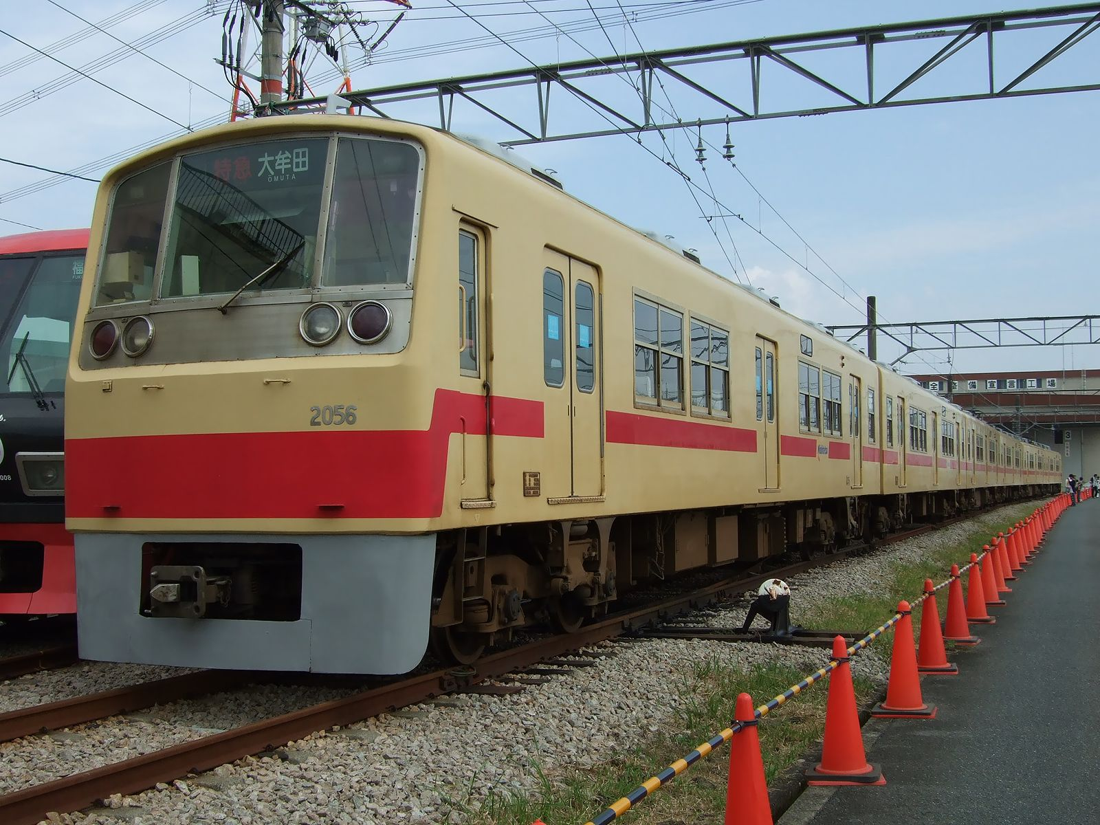 Nishi Nippon Railroad EMU Type2000